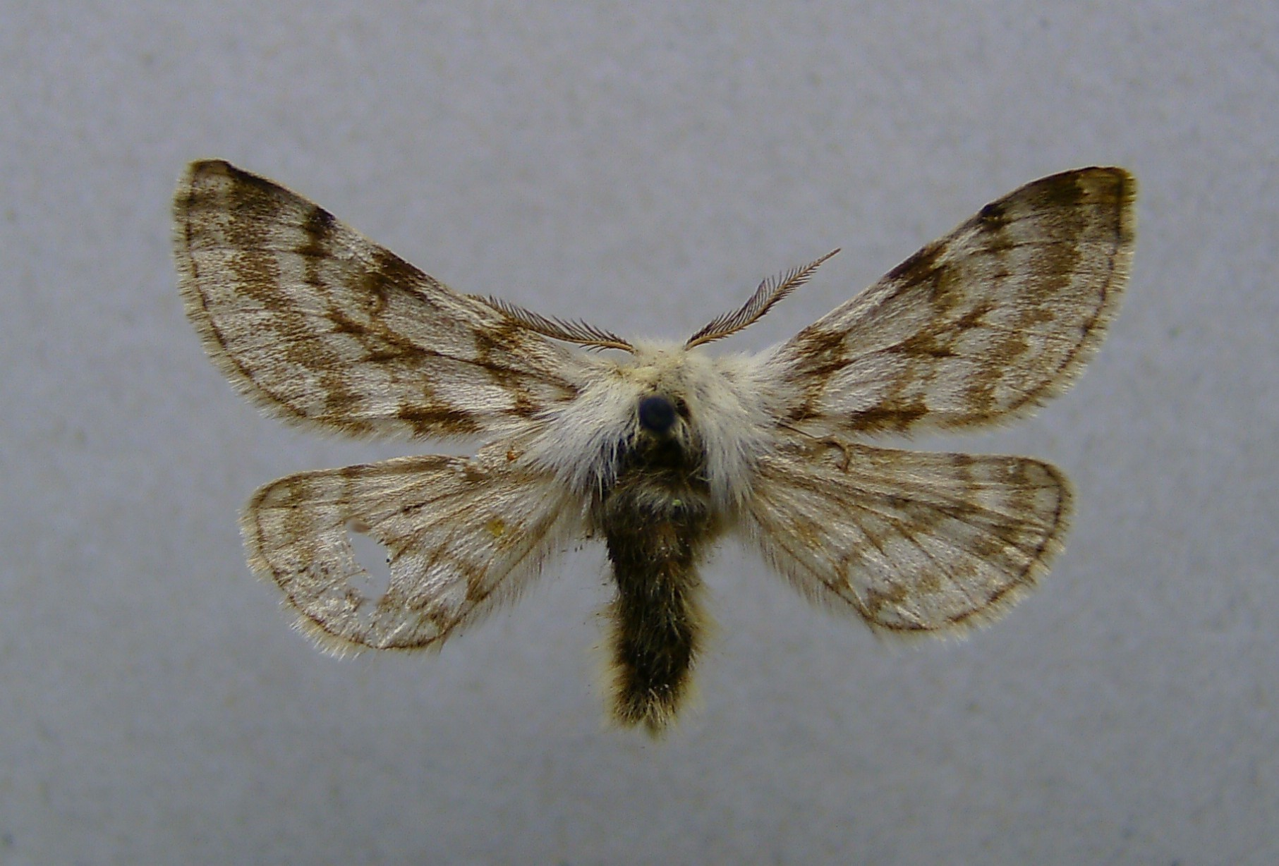 Lycia alpina, Galtür, Tyrol, Austria